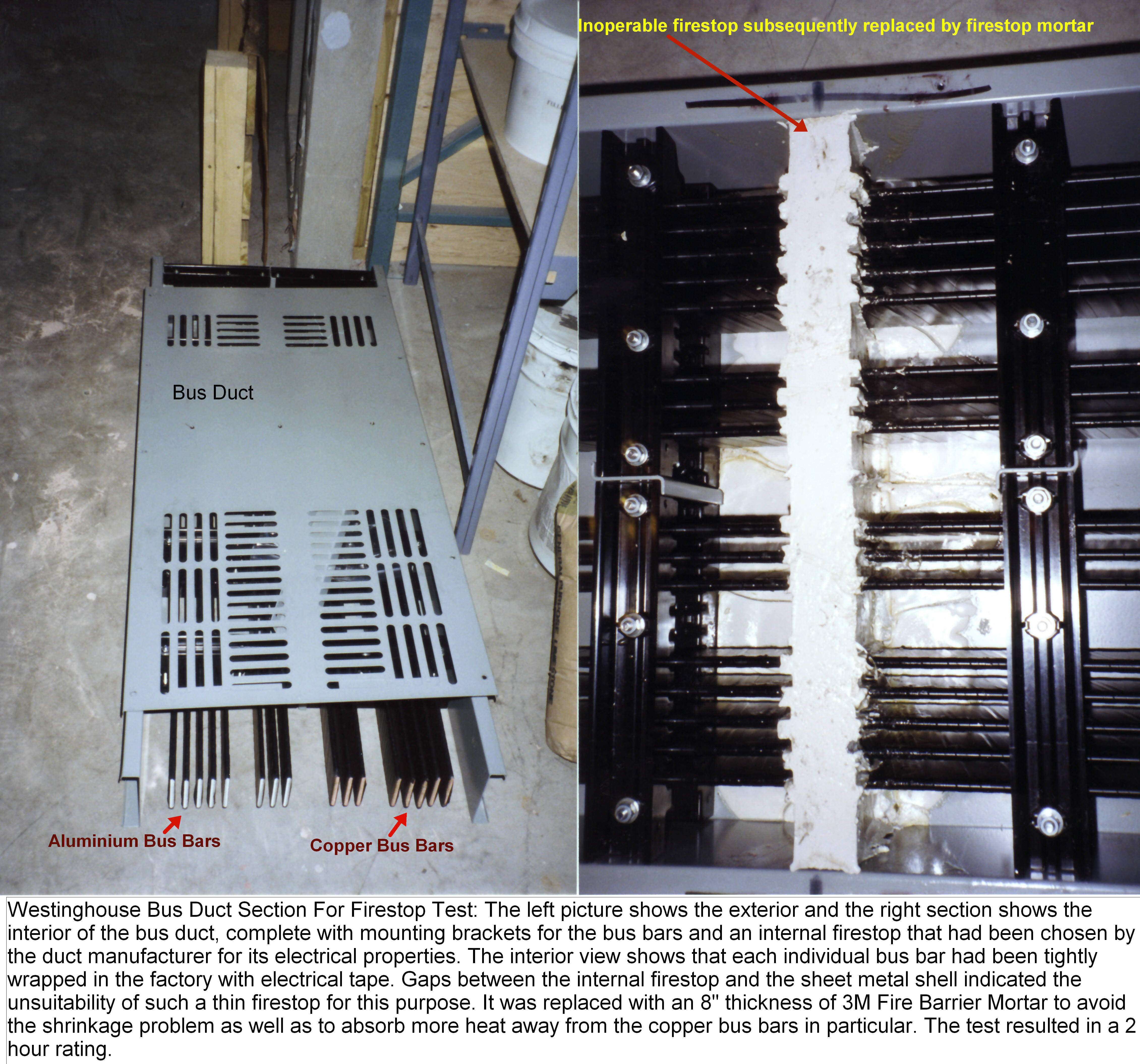 Bus Duct interior and exterior views. This Westinghouse bus duct section was used in a successful 2 hour fire test for a firestop system. The interior firestop that was provided by the bus duct manufacturer was replaced with an 8" thickness of firestop mortar because of shrinkage of the material shown here and its insufficient thickness to enable a T rating of the assembly.